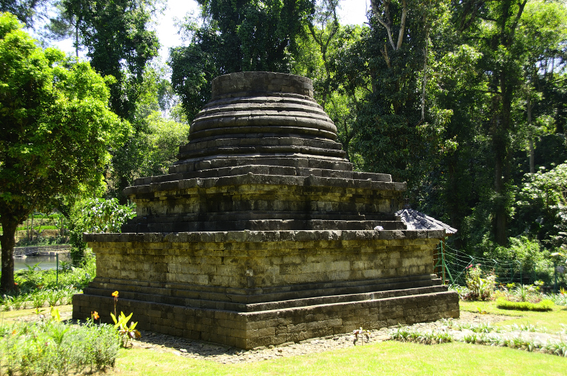 Candi Sumberawan, Singosari, Malang, Jawa Timur